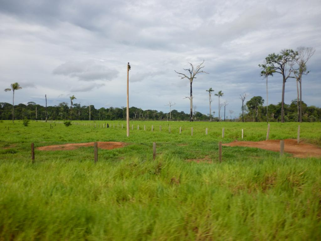 View from the highway between Riberalta and Cobija in the Bolivian Amazon